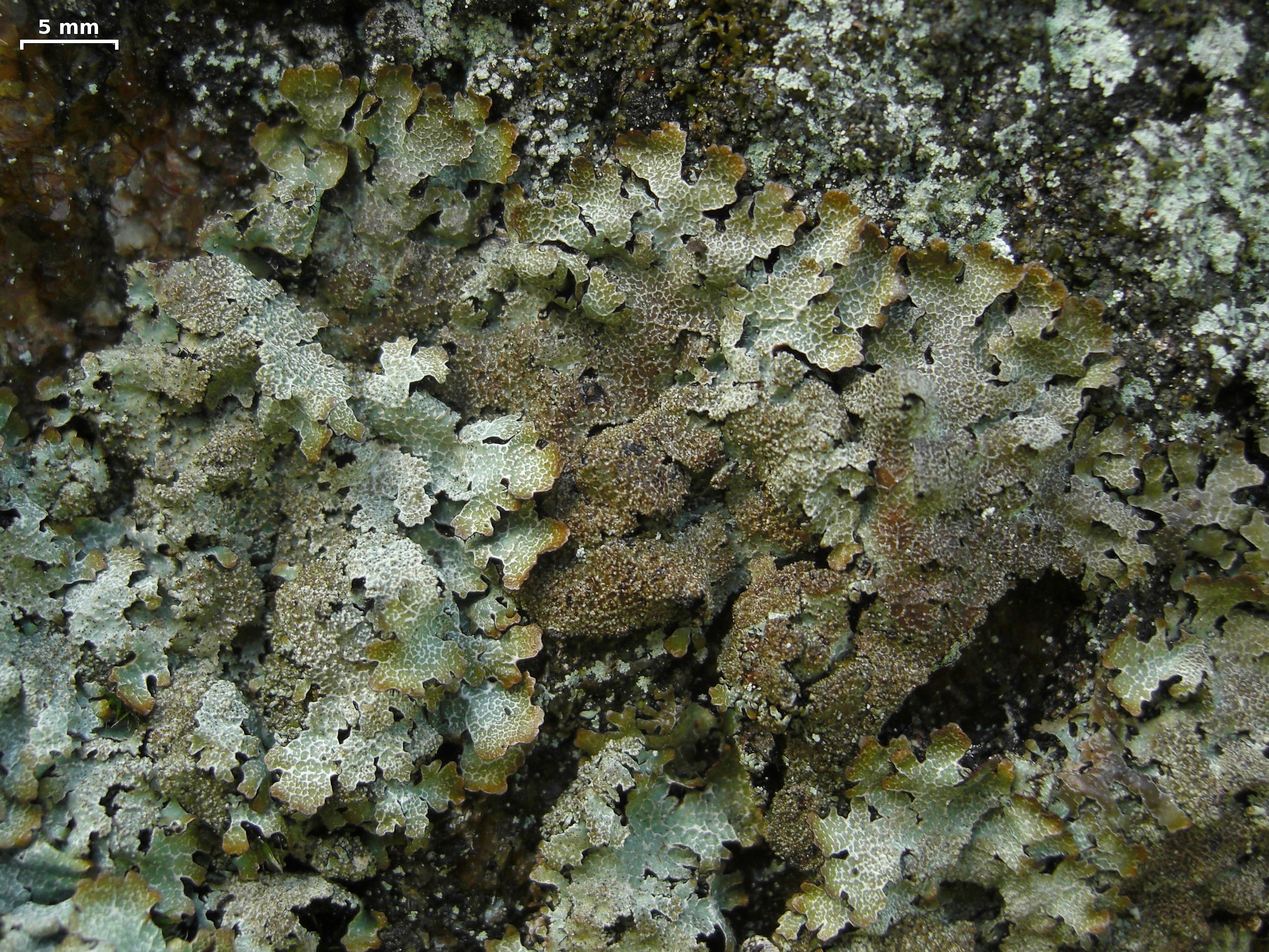 The lichen Parmelia saxatilis (L.) Ach.; photographed in Lost Cabin Trail, Black Hills, Pennington Co., South Dakota, USA.